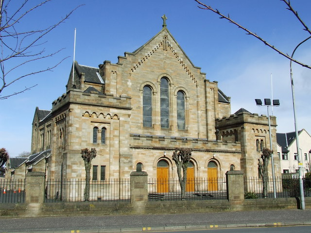 St Mirin's Cathedral. RC Cathedral near Glasgow Road. Note the difference in spelling from Paisley's St Mirren Football Club. See date stones at 371347 and 371350.